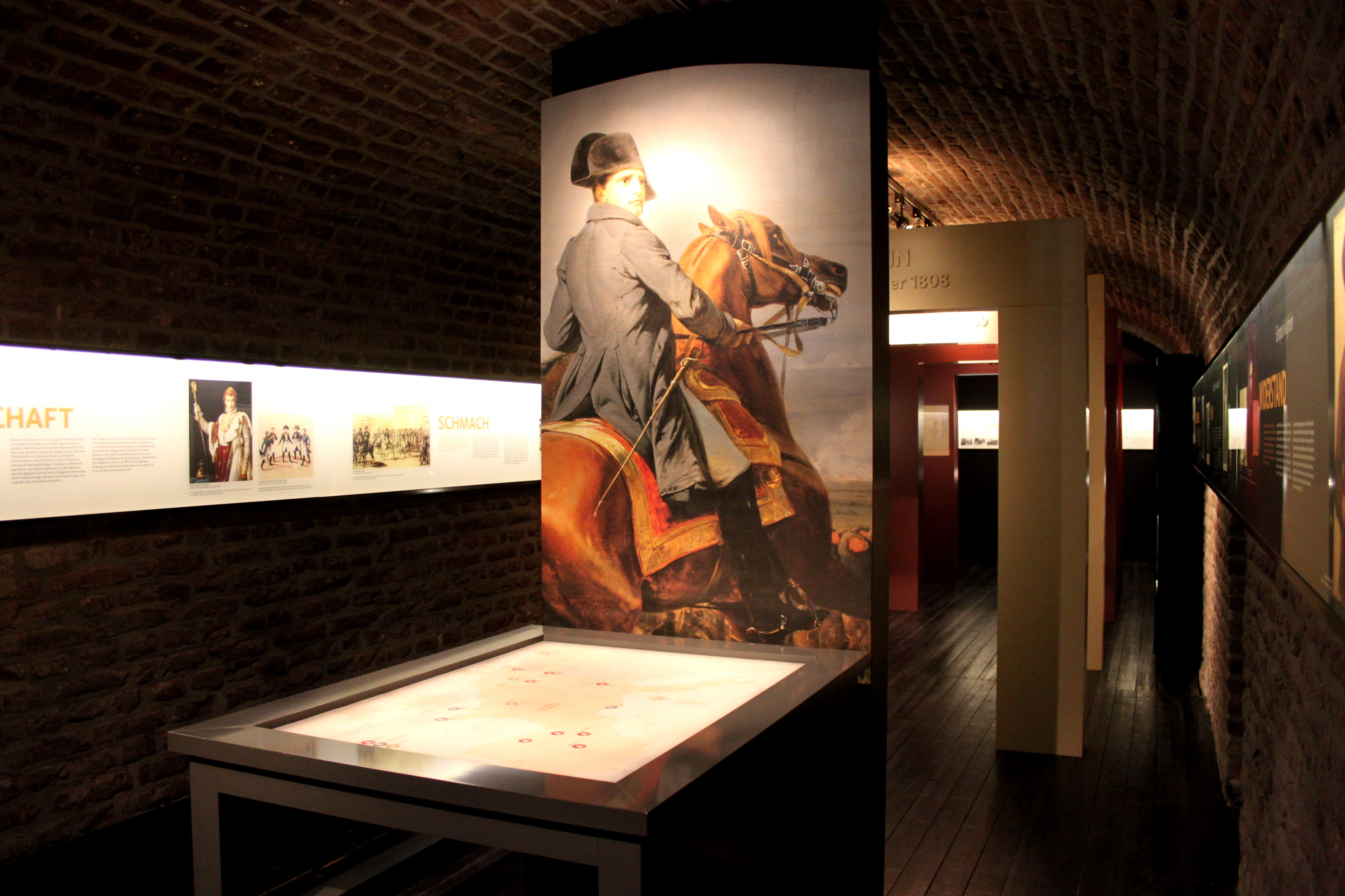 View of the exhibition on the history of the so-called Schill officers in the main gate building of the Wesel Fortress (Lower Rhine).